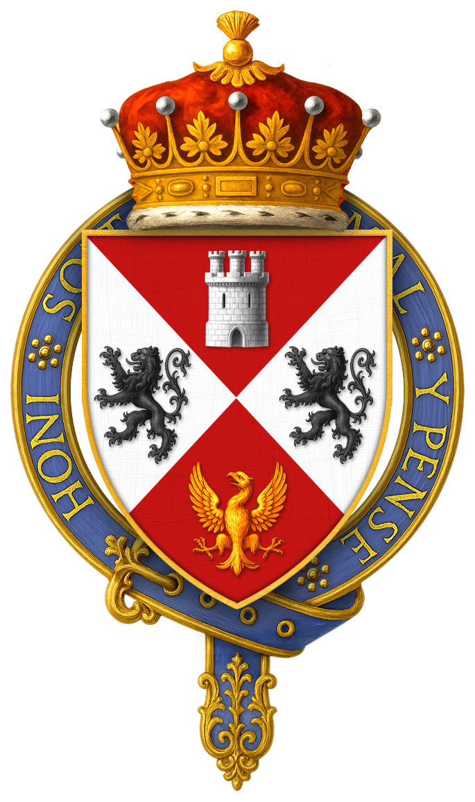 Garter encircled arms of Benjamin Disraeli, 1st Earl of Beaconsfield, KG, as displayed on his Order of the Garter stall plate in St. George's Chapel.